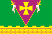 Yuznokubanskoe (Krasnodar krai), flag